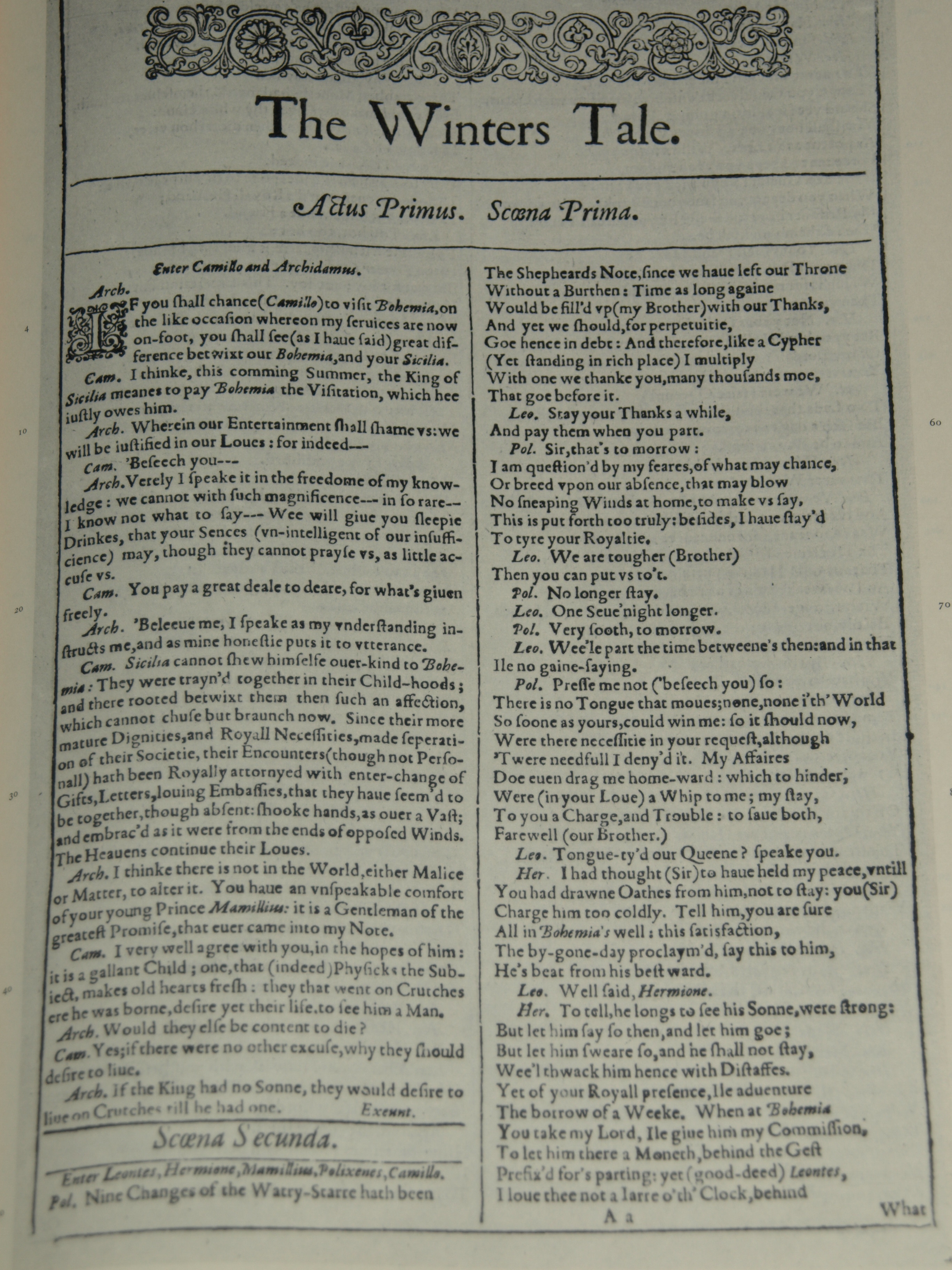 Photo of the first page of The Winter's Tale from a facsimile edition of the First Folio of Shakespeare's plays, published in 1623